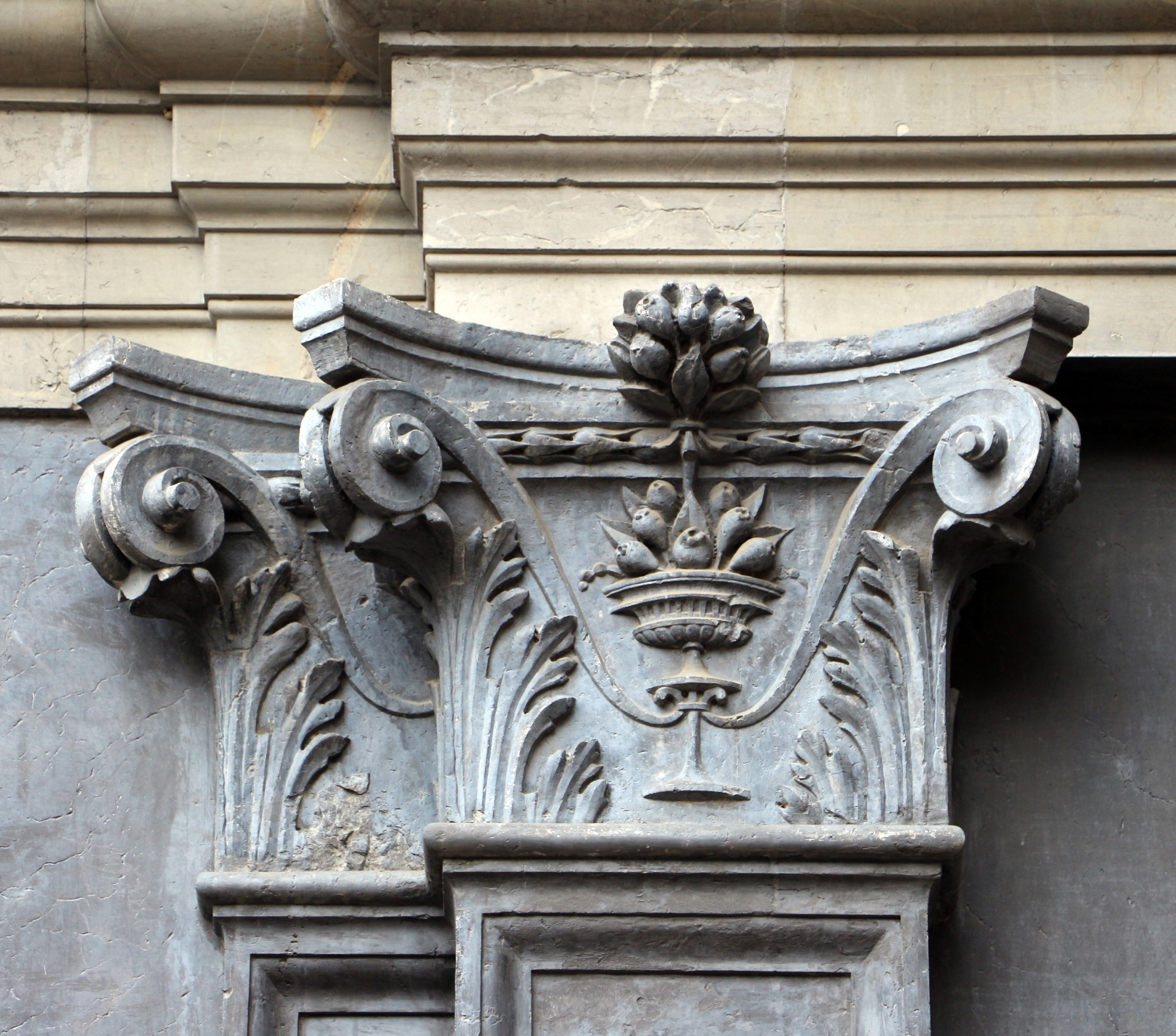 Bergamo